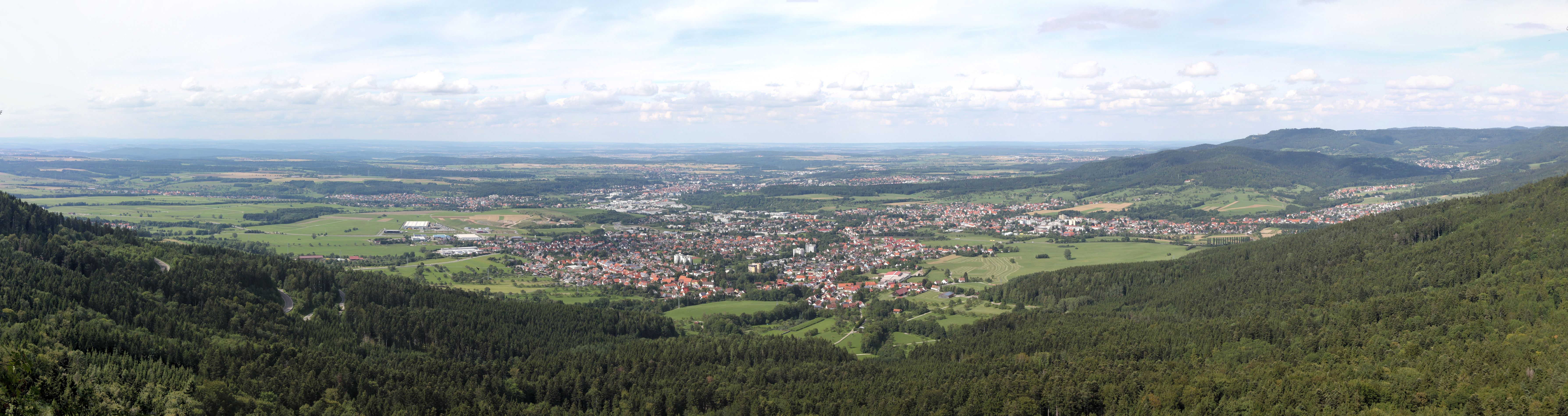 View from the Albtrauf (Schinderlucke) to the western foreland of the Swabian Jura with Weilstetten in the foreground, behind that Balingen.